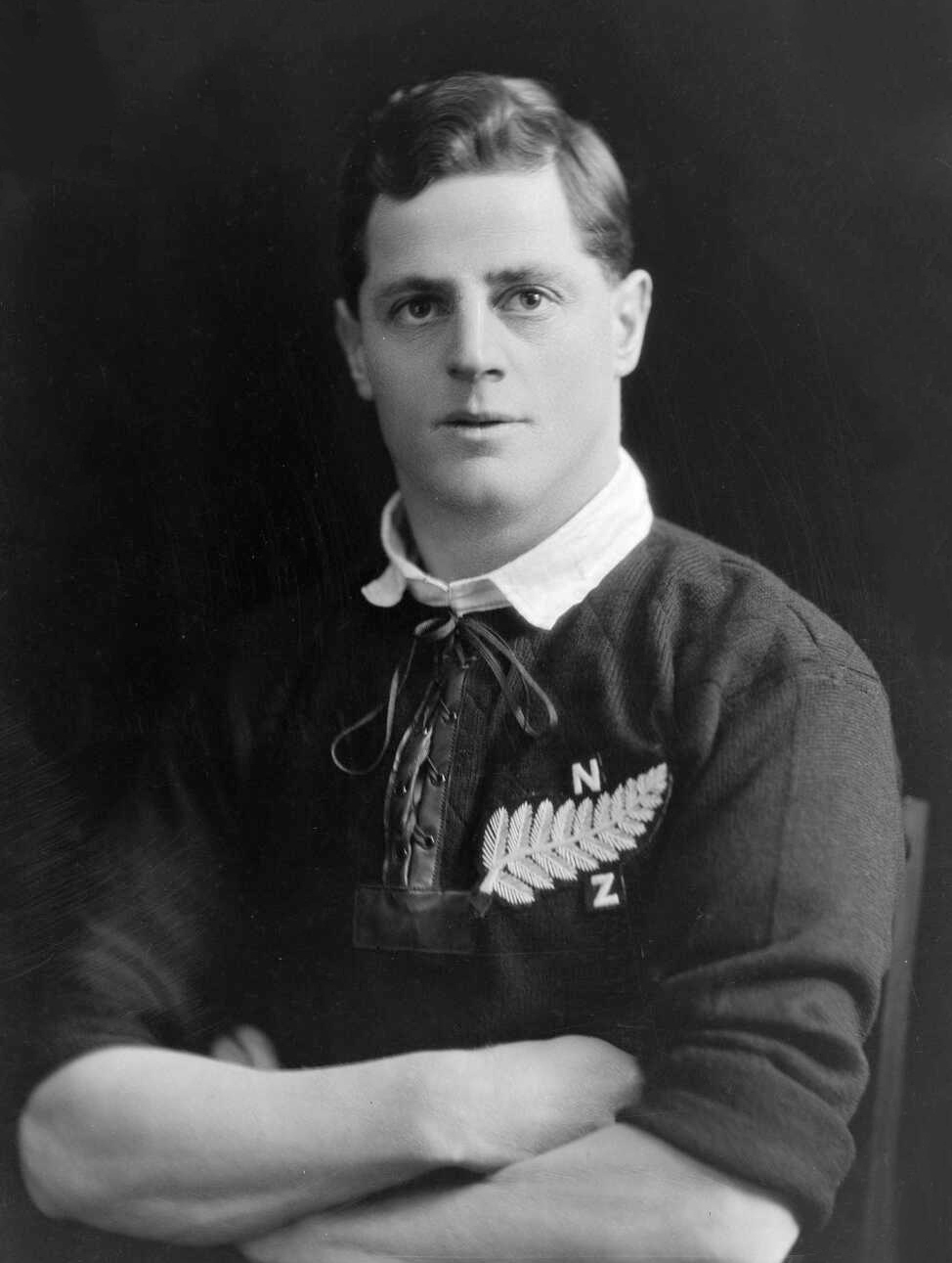 Photograph of All Black Augustine "Gus" Hart, taken by Crown Studio Ltd of Wellington.